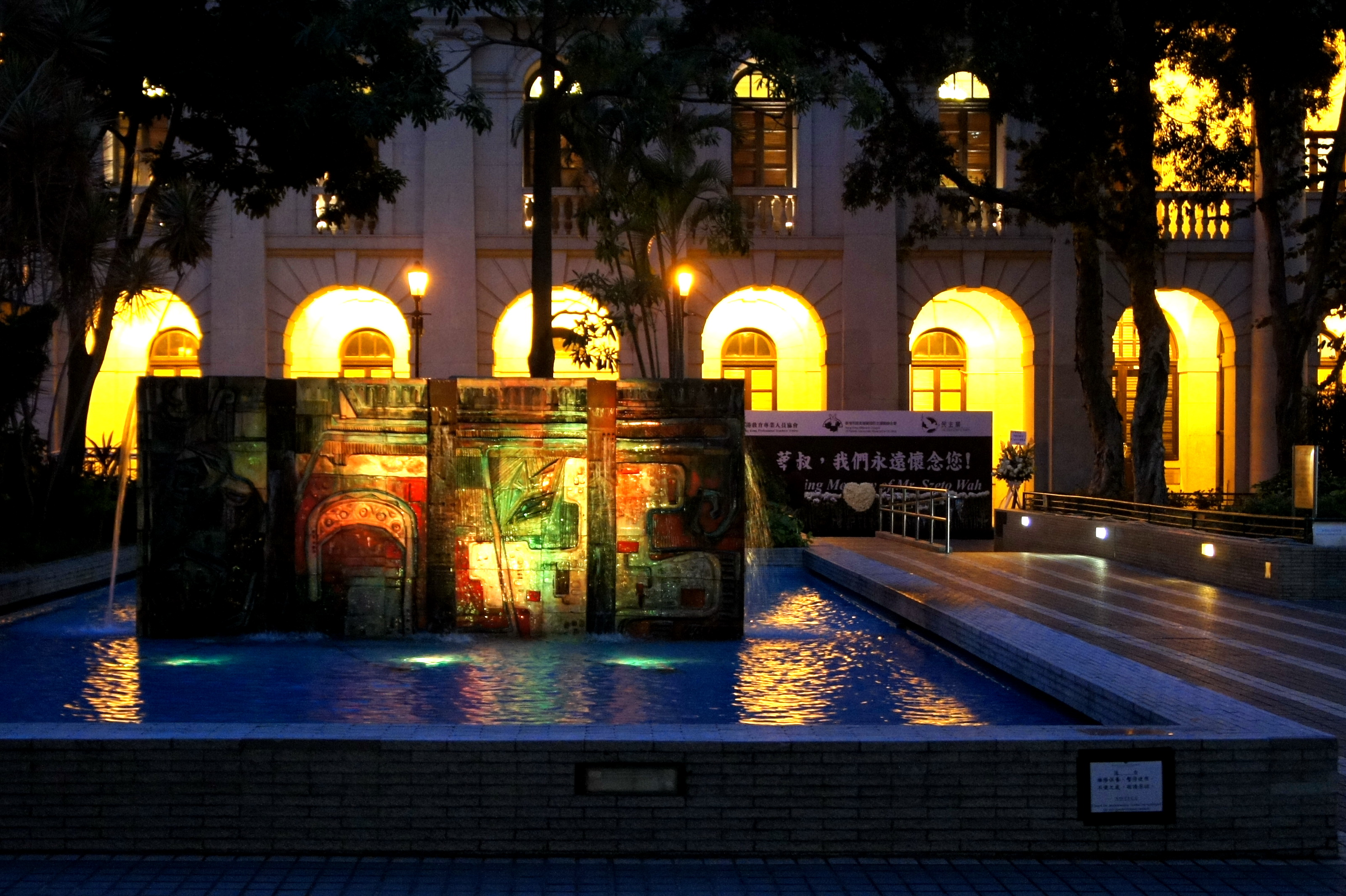 Statue Square in Central, Hong Kong.